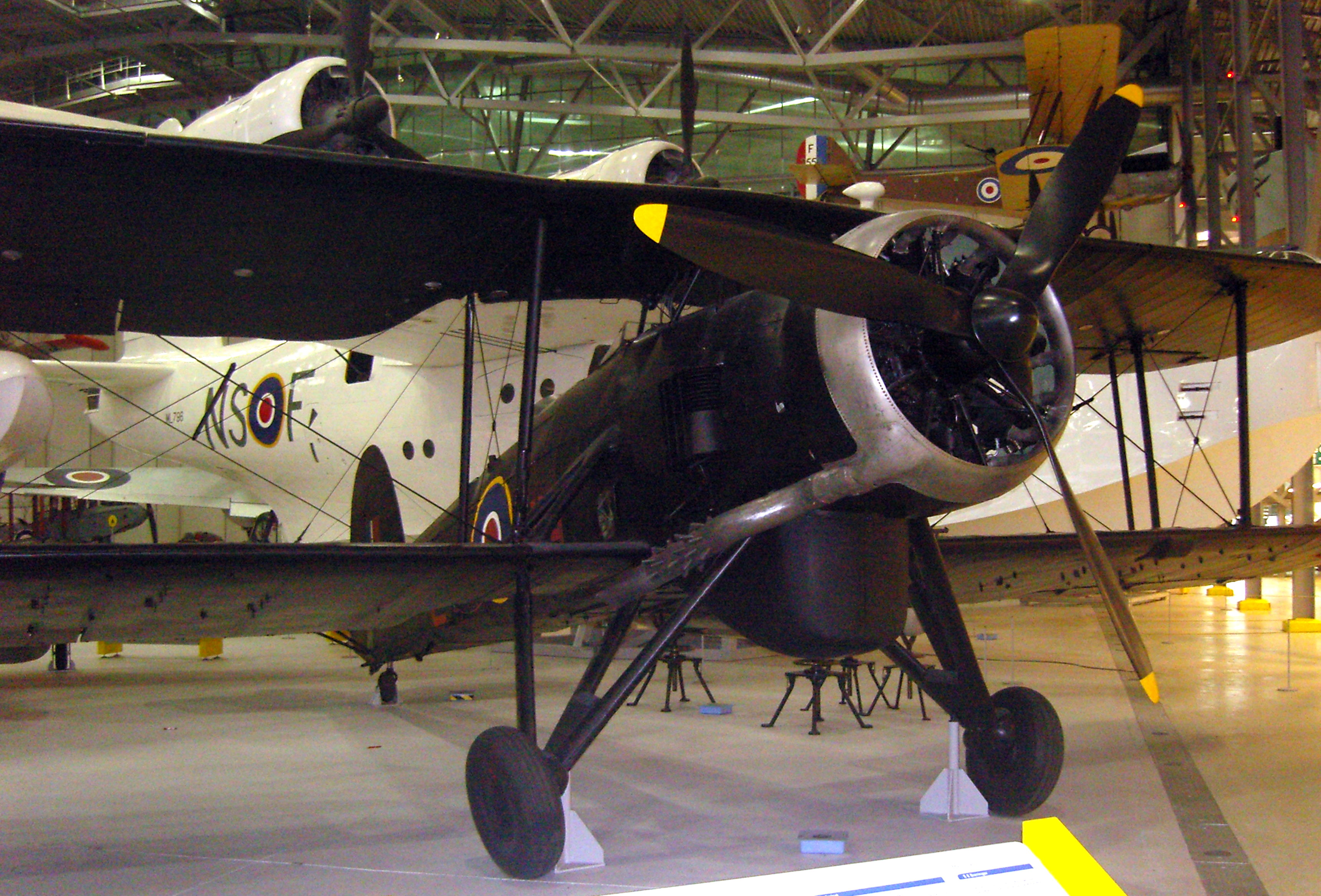 Photo ref; SNC16517 (Edited)